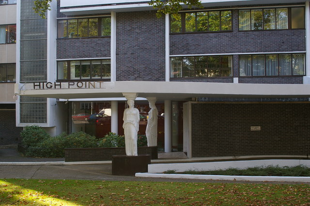 Highpoint II apartments. Porte-cochère (entrance canopy) to Highpoint II flats, in Highgate, London. Grade 1 listed building (1938) by Lubetkin & Tecton